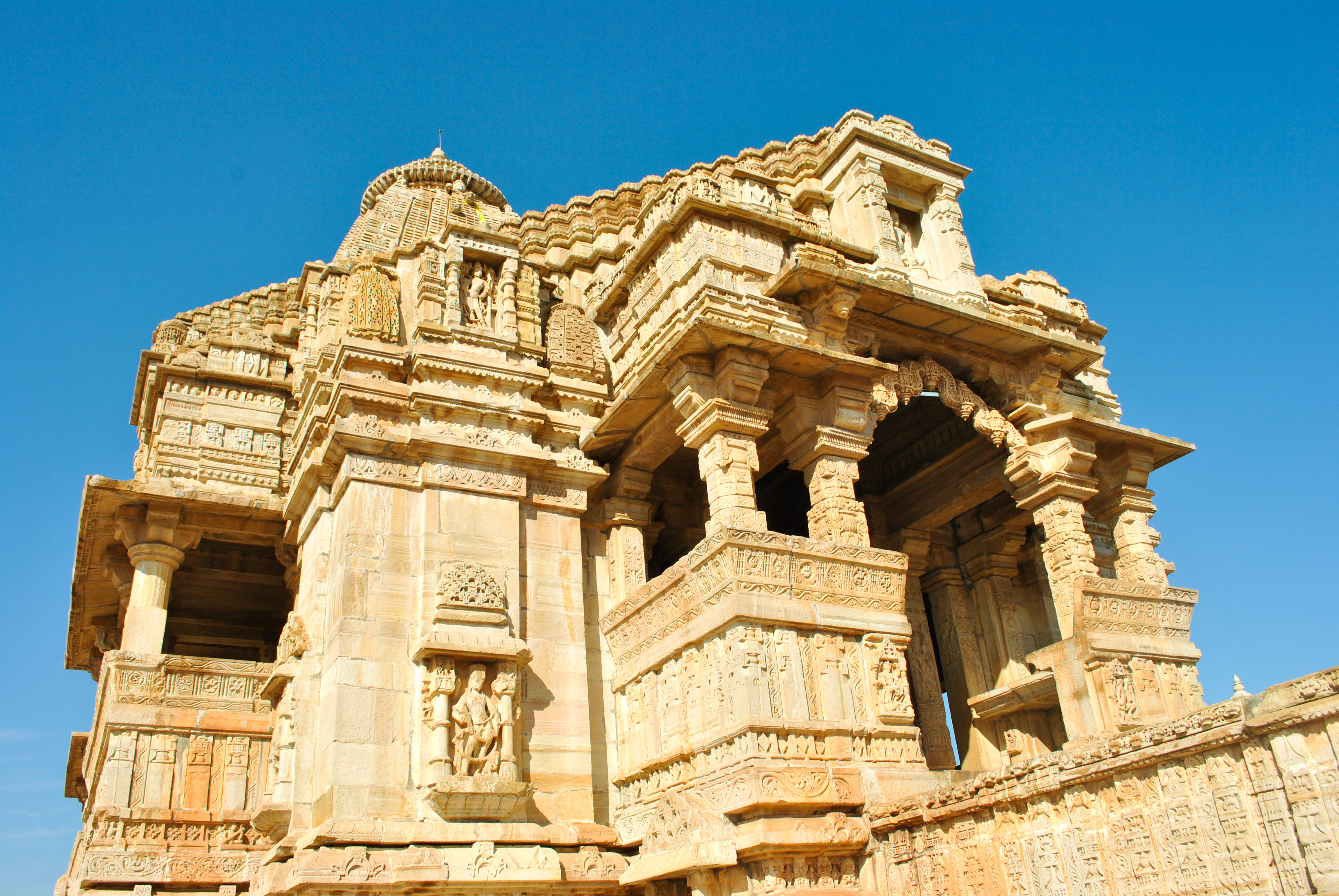 Rajasthan-Chittore_Garh